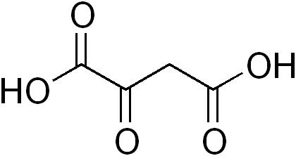 Chemical Structure of Oxaloacetic acid.